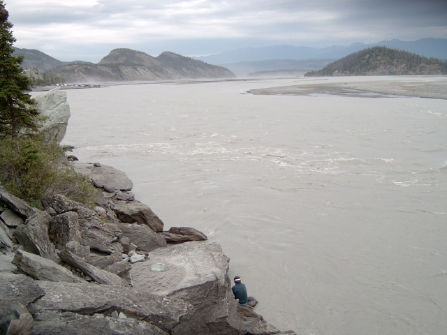 Uploaded by photographer. Taken on west side of Chitina River looking north towards the bridge by Chitina, Alaska. Notice the sand spit on the left where a creek runs into the river.